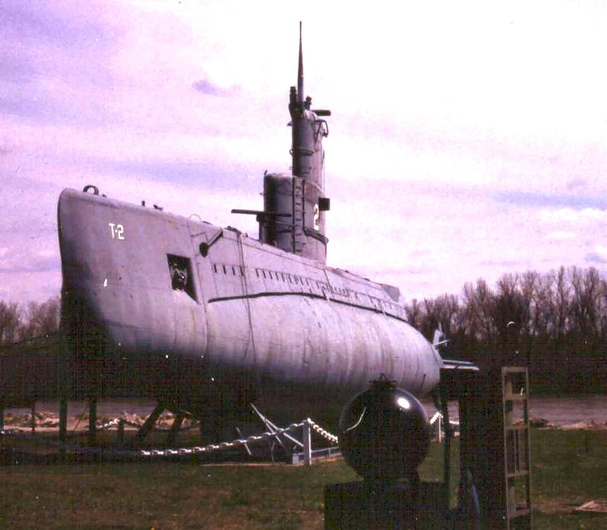 This picture was taken by Oldfarm at Freedom Park, Omaha, Nebraska in 1995